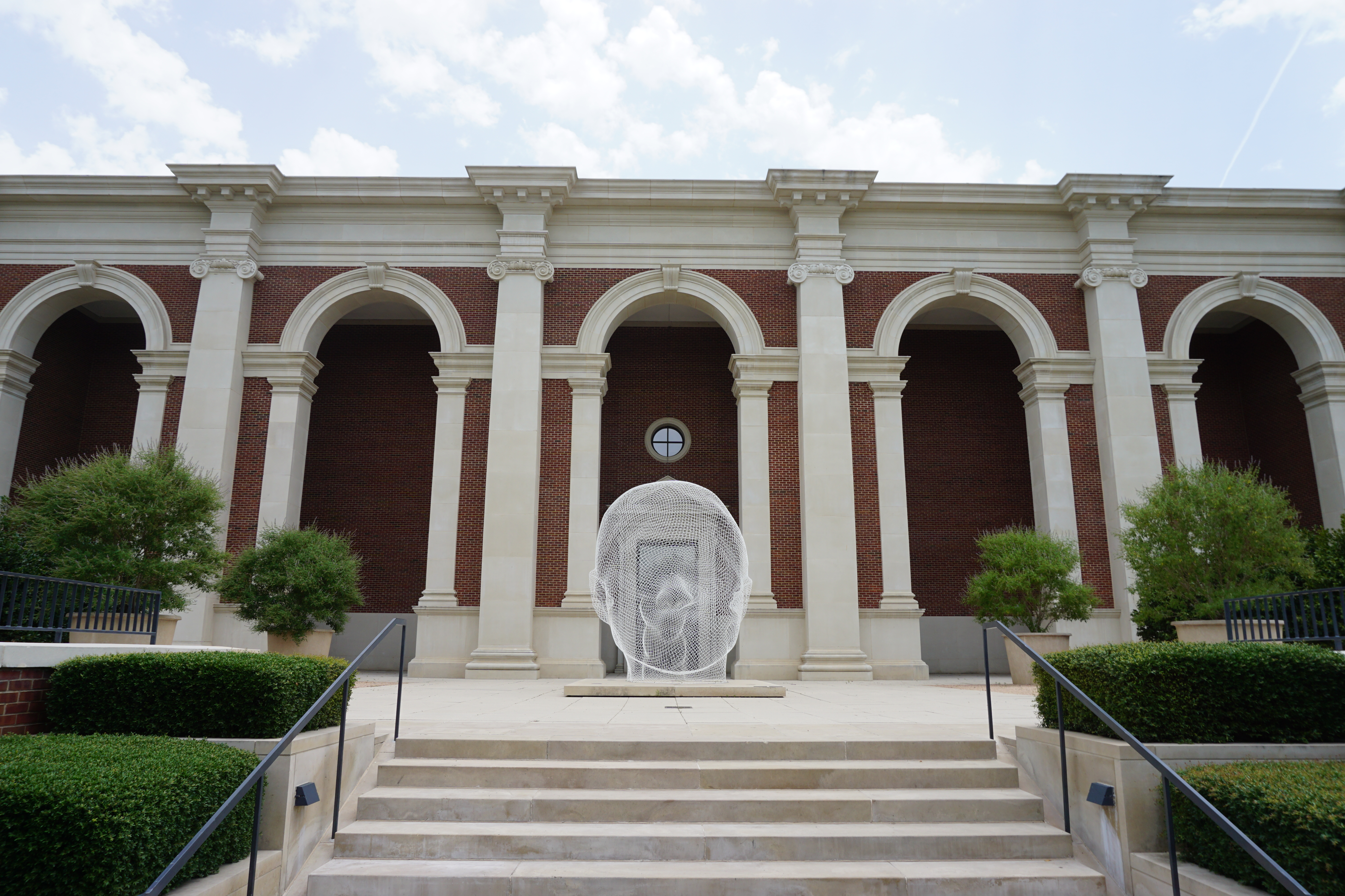 The Meadows Museum on the campus of Southern Methodist University in University Park, Texas (United States).